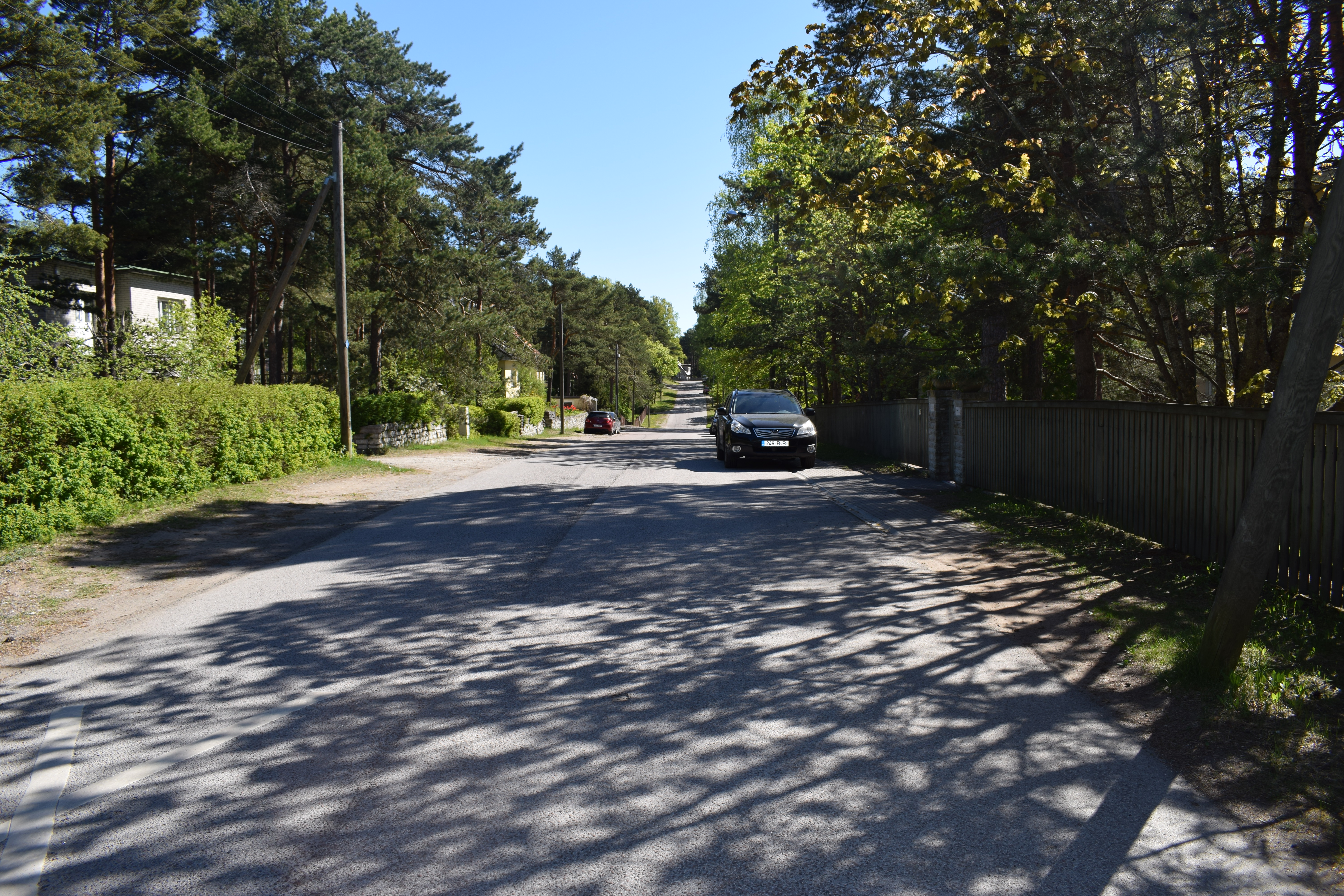 Seljaku street